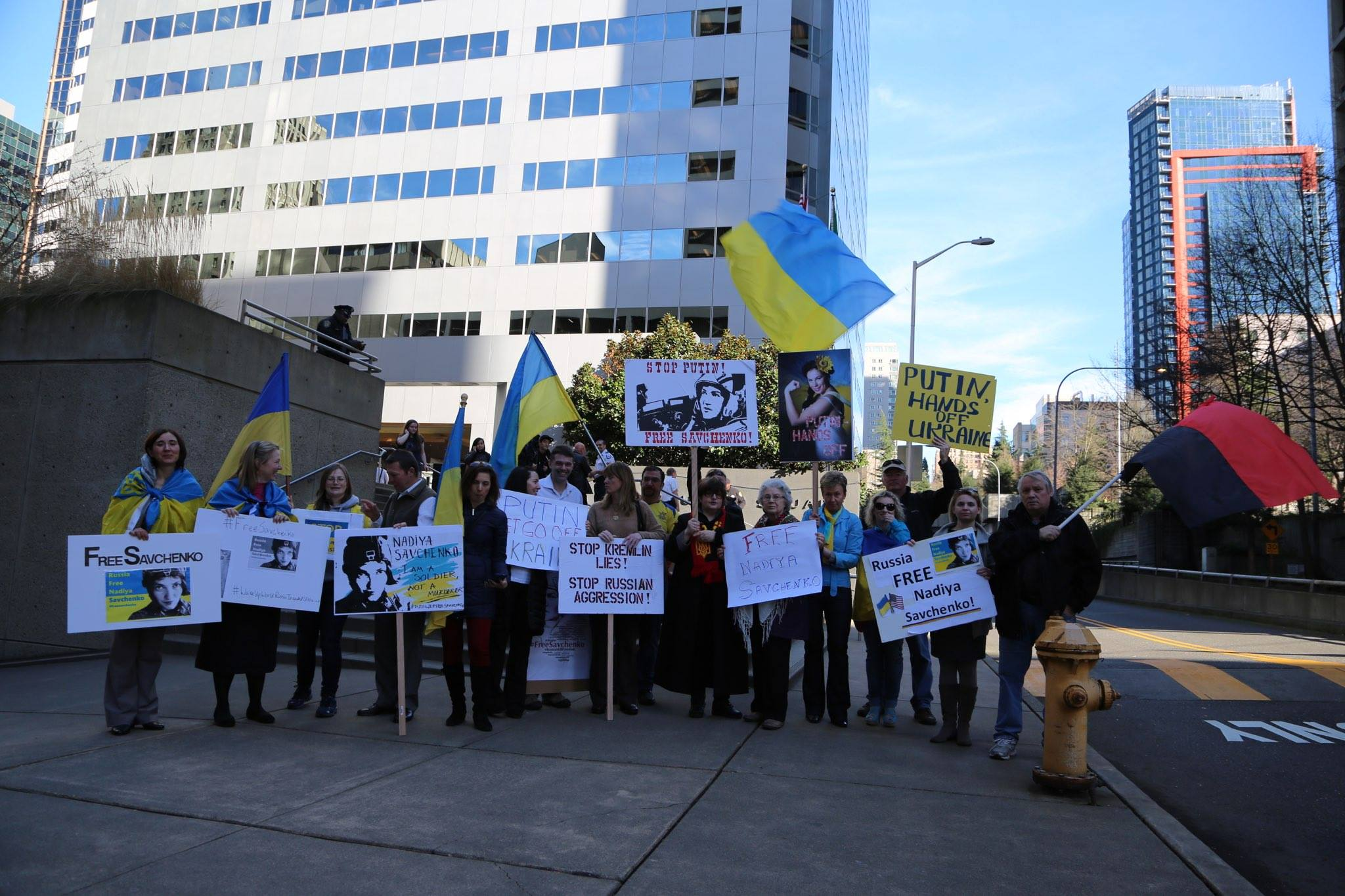 On January 26, Ukrainians from greater Seattle area came out to picket the Consulate General of the Russian Federation in support of "Freedom for Nadiya Savchenko". Conscientious Ukrainians answered the call of Ukrainian Association of Washington State to protest the actions of Kremlin in Ukraine and to join the worldwide response in support of Nadiya Savchenko. Protesters presented the Consulate with the letter to the Consul General of Russia from Ukrainians of Washington State, demanding immediate end to Russian aggression against Ukraine, as well as release of Ukrainian soldiers captured illegally in Ukraine from Russian jails, including a member of PACE, Nadiya Savchenko.